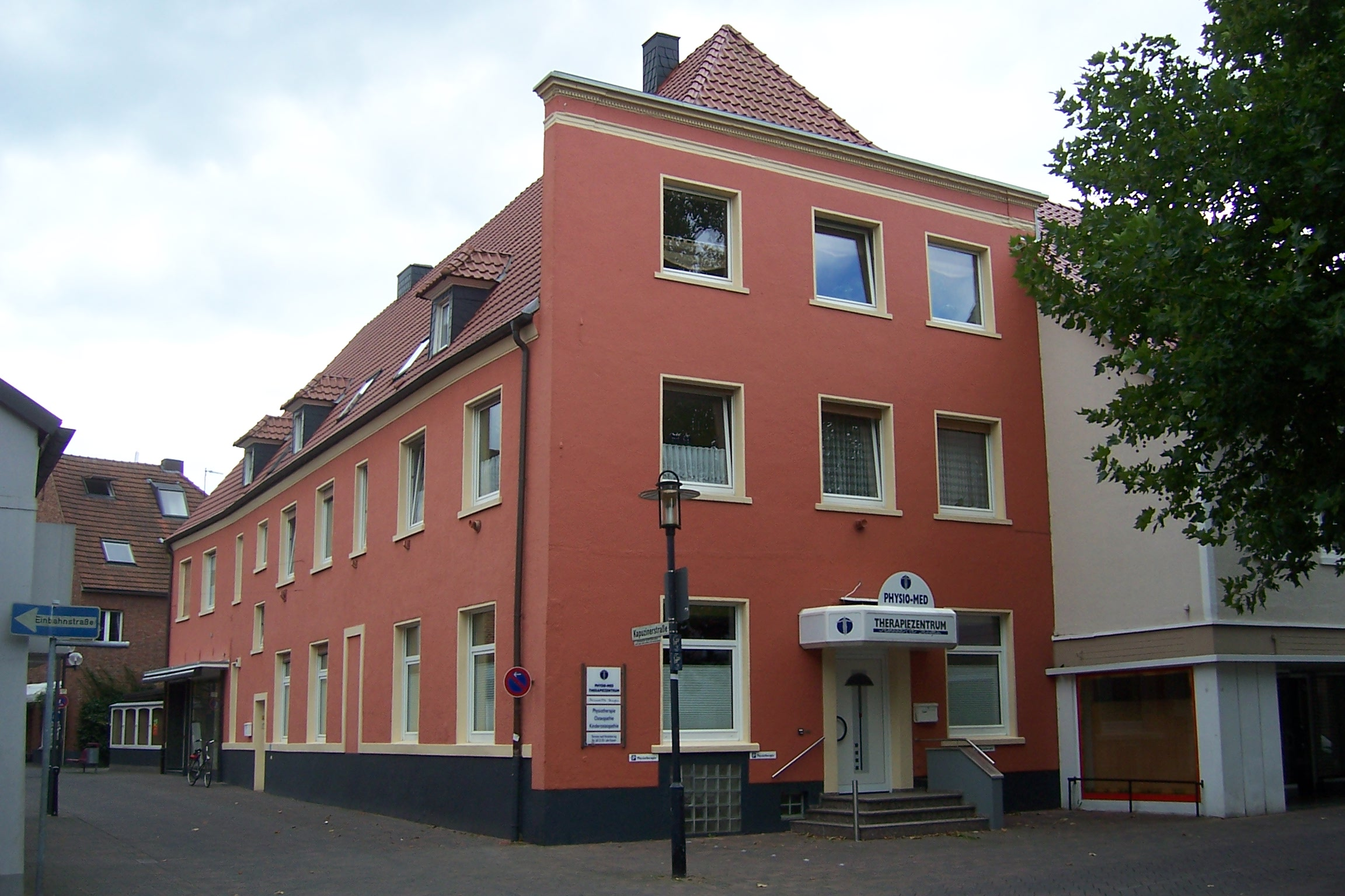 The only remaining building in "Kirchplatz" after bombing of Borken in WW II (March 1945).